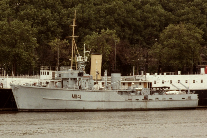 HMS Glasserton (M1141), a Ton class minesweeper.